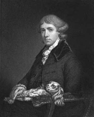 Portrait of Thomas Sedgwick Whalley (1746–1828), English cleric, poet and traveller.